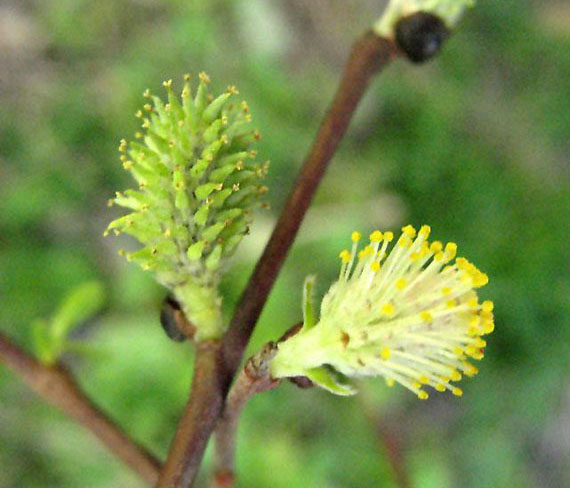 Male amd female flowers of Salix tarraconensis